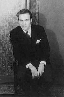 Christopher Plummer Dec. 29, 1959